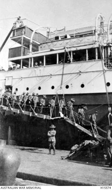 Alexandria, Egypt. December 1914. 7th Battalion, AIF, disembarking from a troopship.